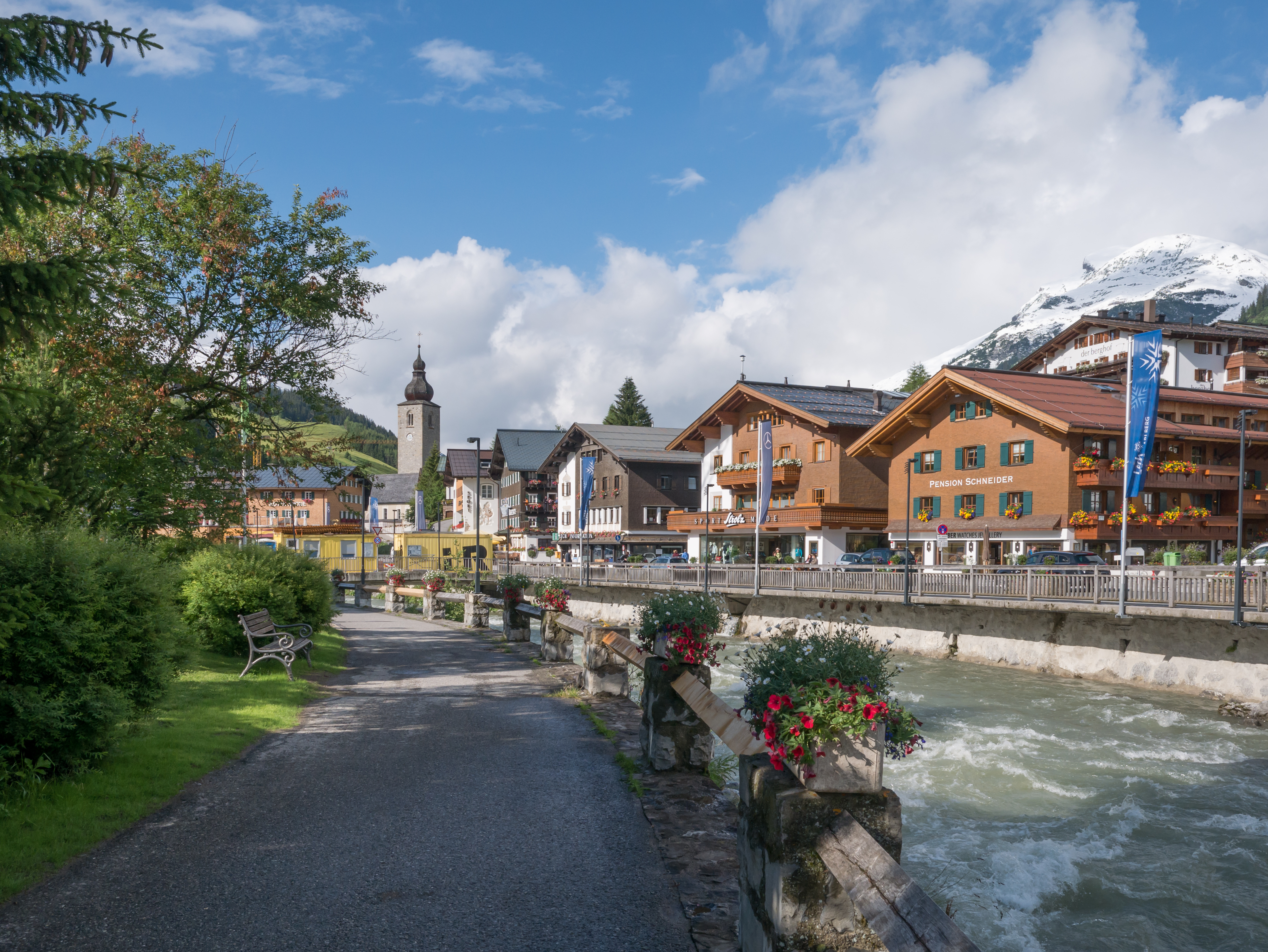 Promenade, river Lech and main street in the centre of Lech. Vorarlberg, Austria